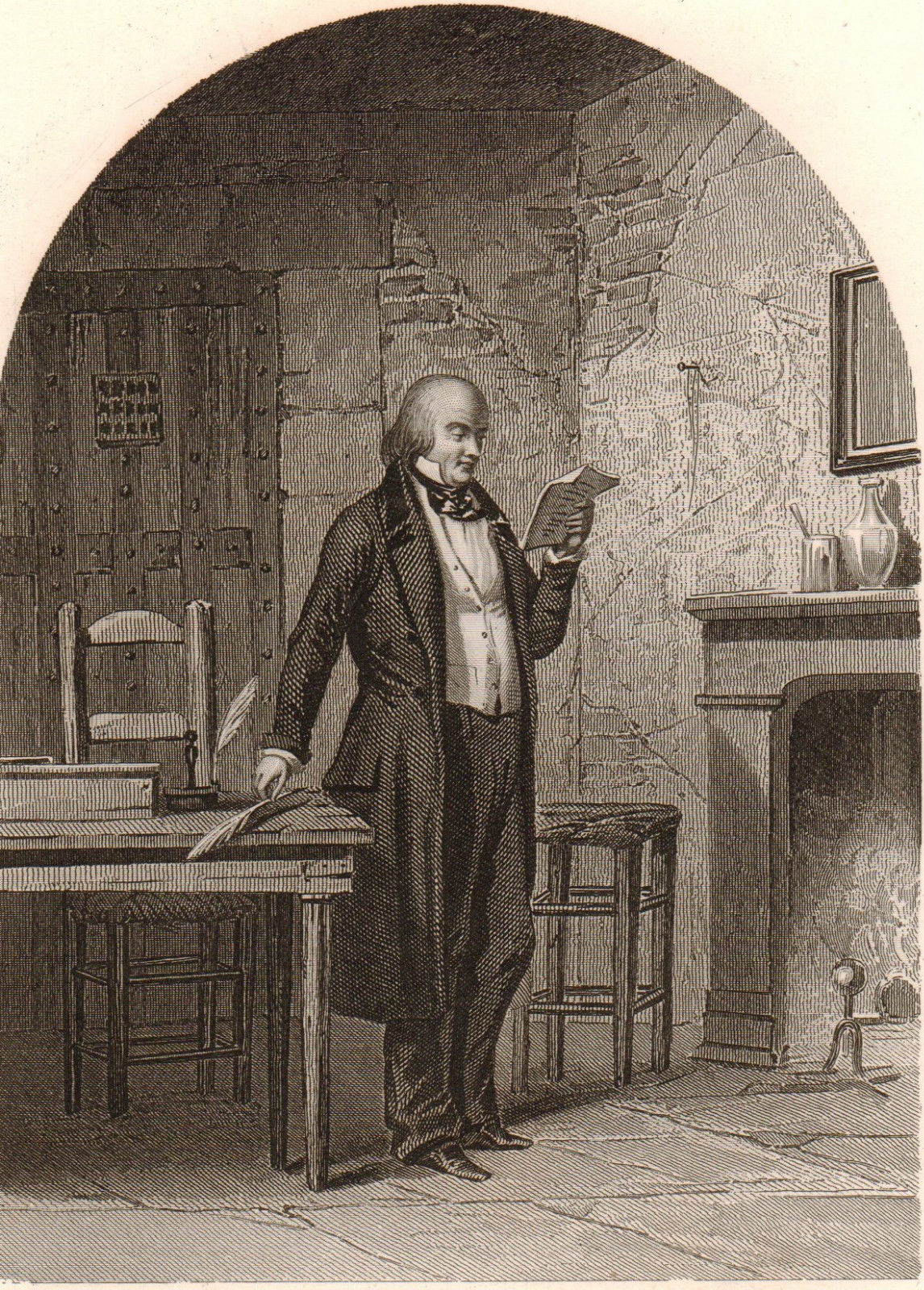 French Singer Pierre-Jean de Béranger in Jail at La Force Prison in Paris.